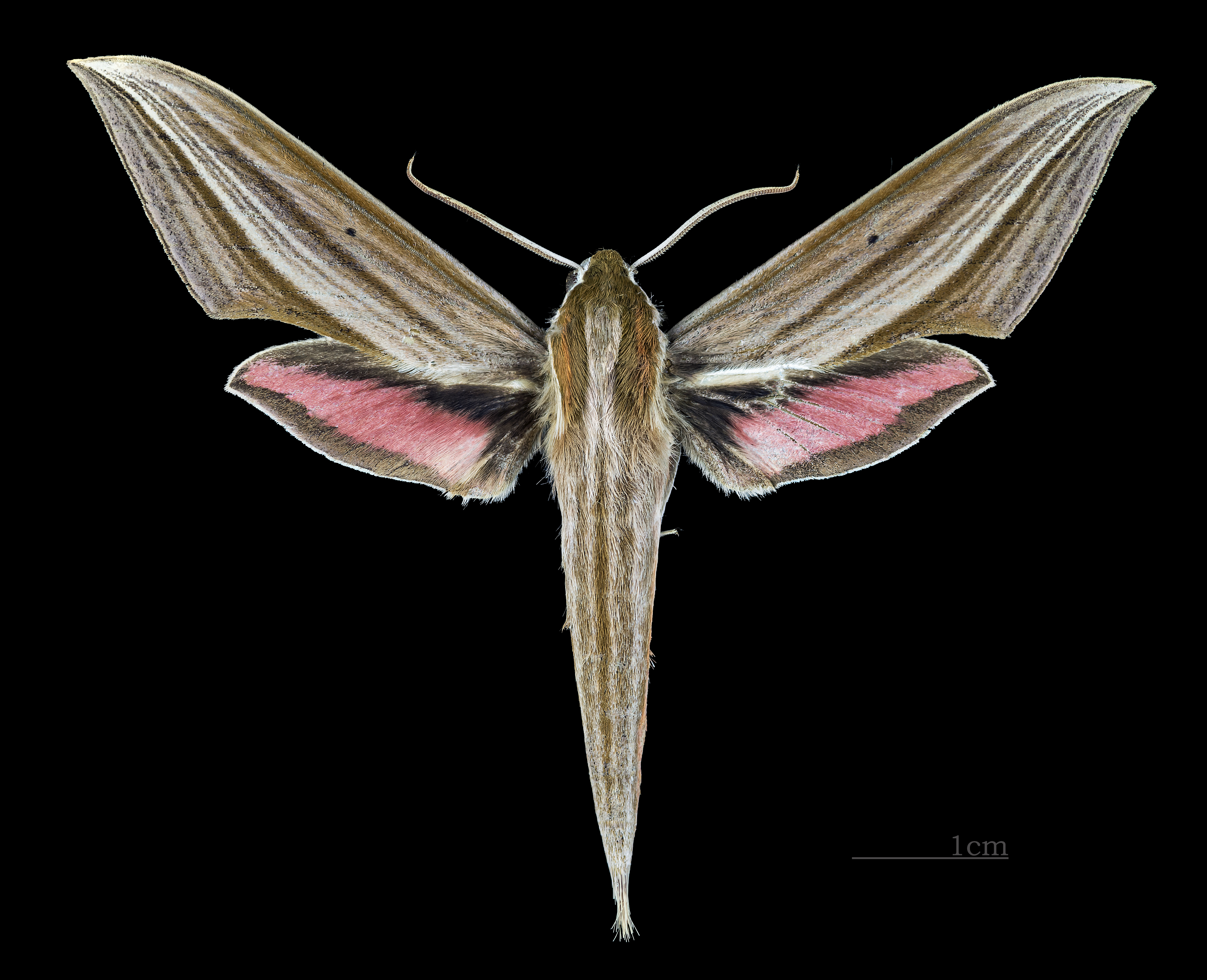 Xylophanes neoptolemus - Dorsal side Collection of the Mathematician Laurent Schwartz